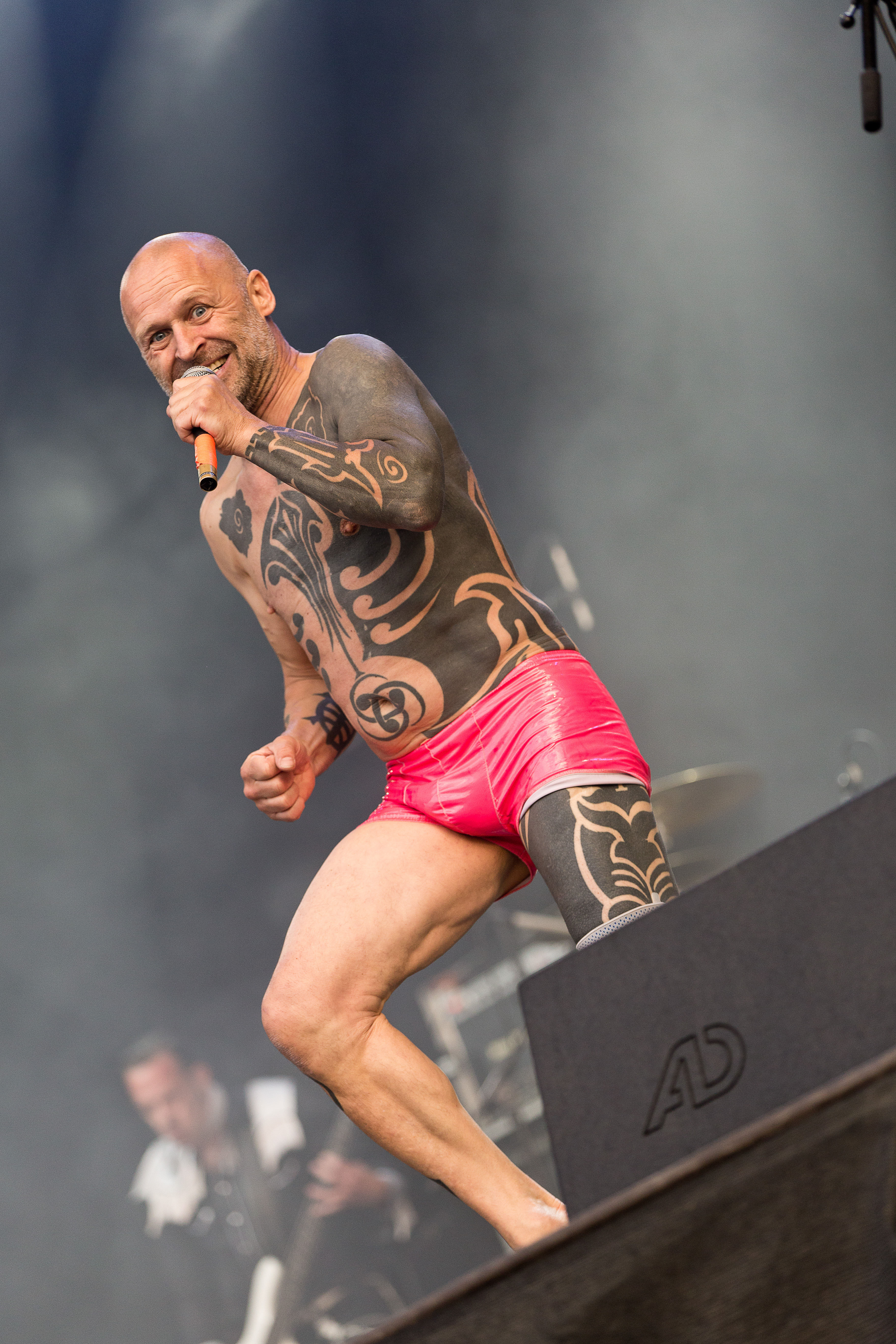 The German rock band Knorkator at the Rockharz Open Air 2016 in Ballenstedt/Germany.